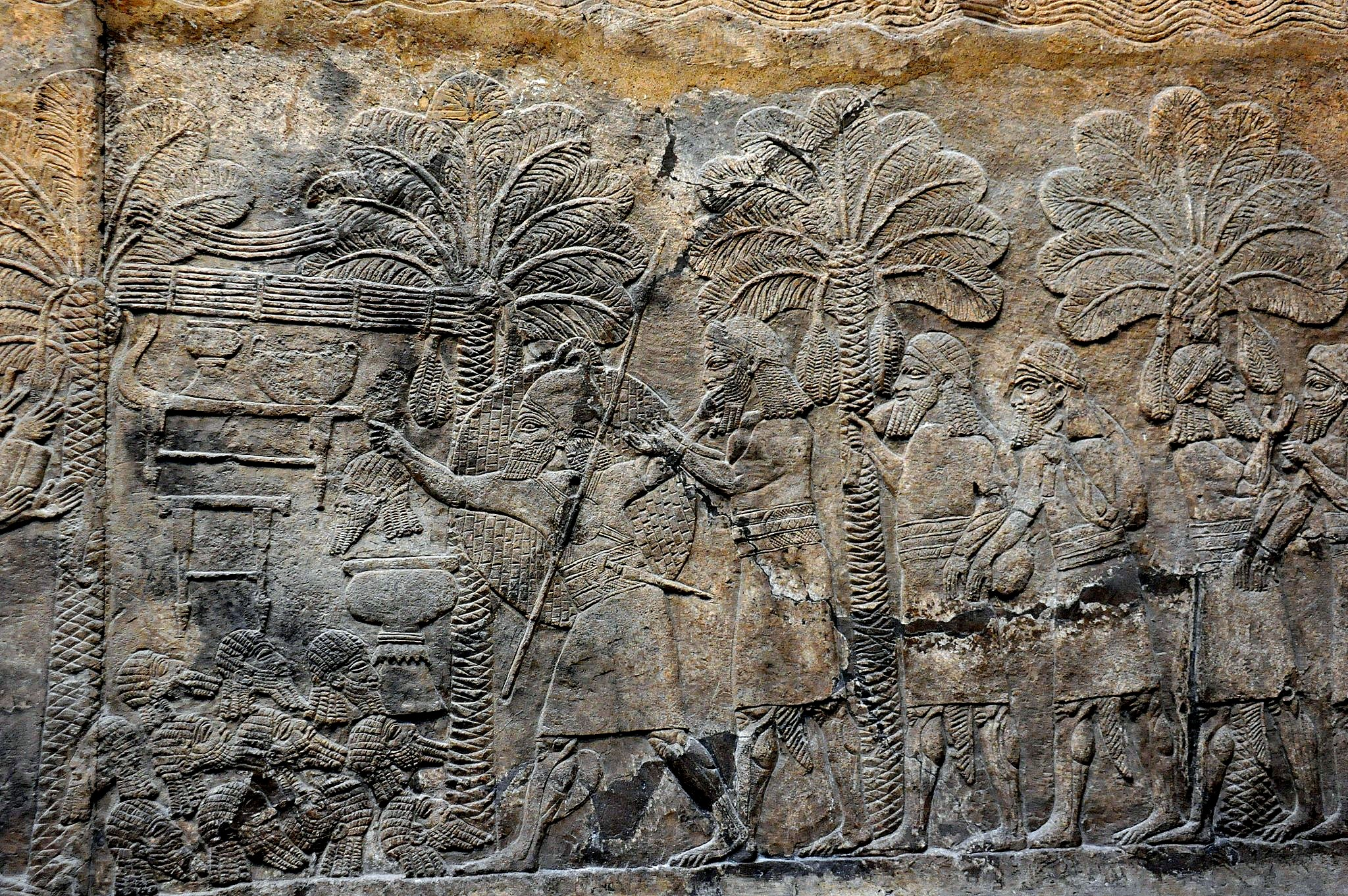 Assyrian military campaign in southern Mesopotamia, 640-620 BC. The heads of the beheaded enemies are shown. Alabaster bas-relief from the South-West Palace at Nineveh, in modern-day Nineveh Governorate, Iraq. The British Museum, London.